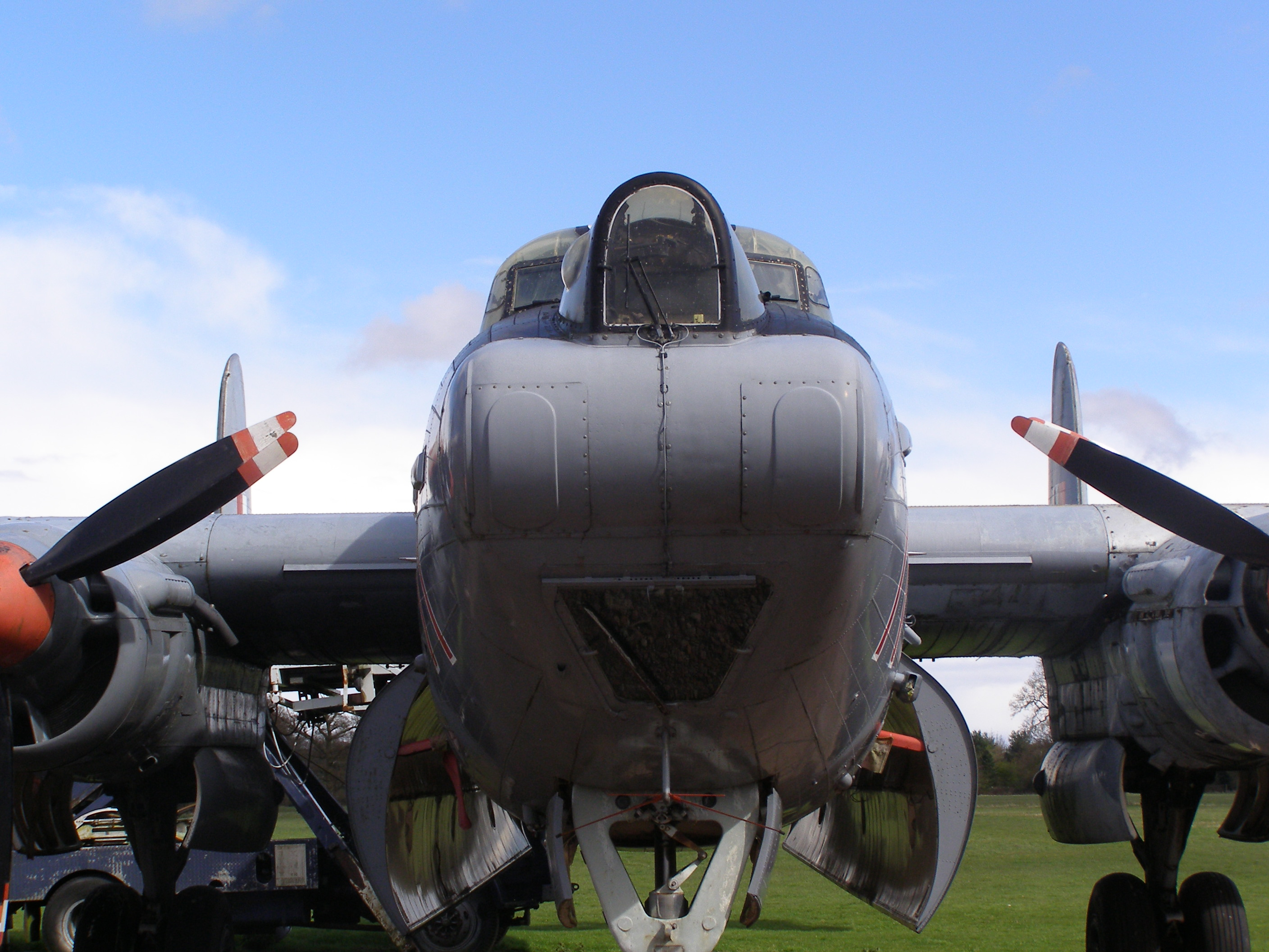 Former Royal Air Force Avro Shackleton MR3 WR974 coded "K" on display at the Gatwick Aviation Museum, England